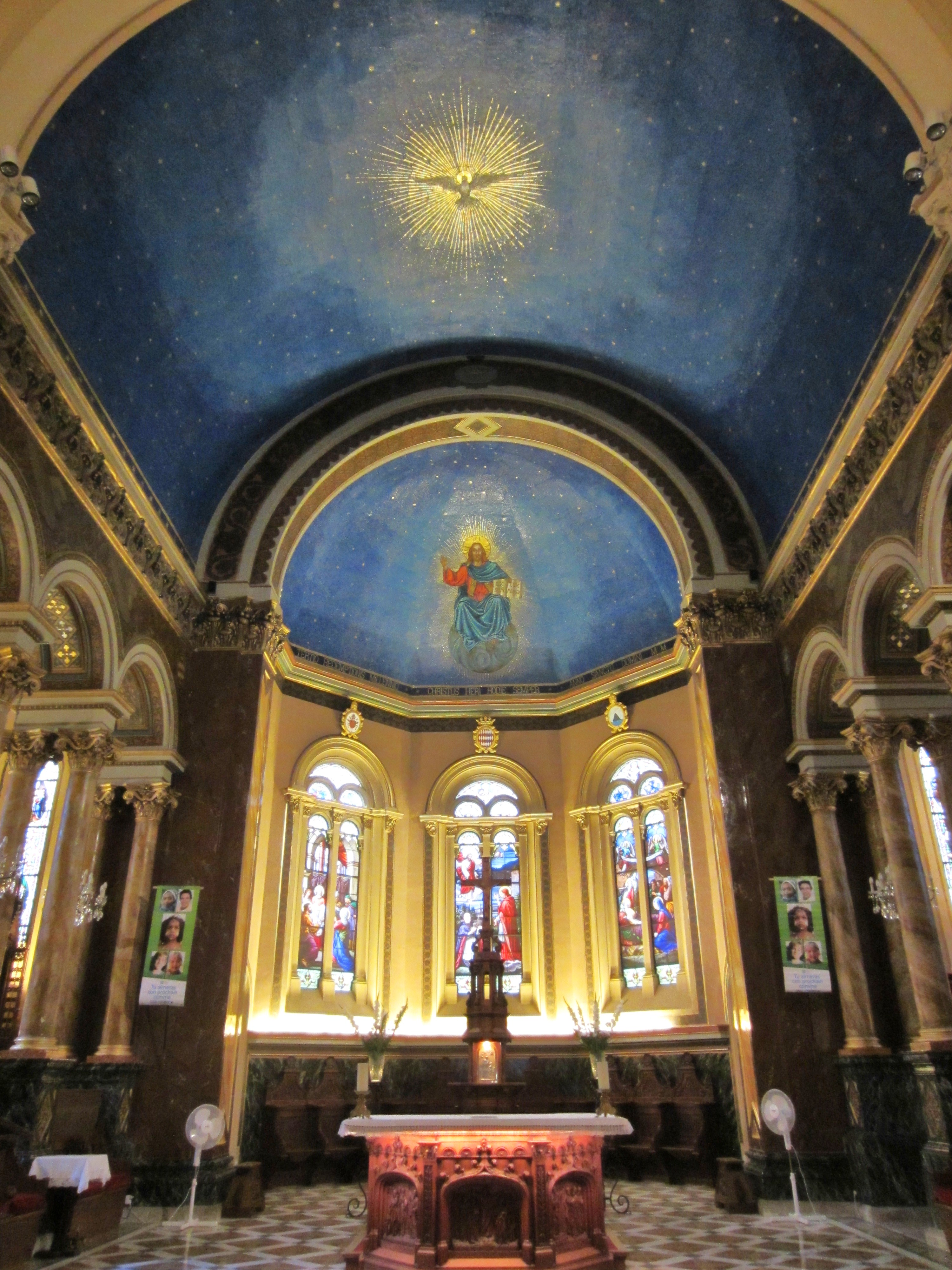 Description autel eglise st charles Monaco Date21 October 2011Sourcemon appareil photoAuthorAimelaimePermission (Reusing this file) autel eglise st charles Monaco